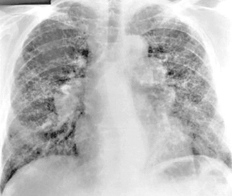 54 year old man who works in the aerospace manufacturing industry.Berylliosis an occupational lung disease that is usually associated with aerospace manufacturing, beryllium mining or manufacturing of fluorescent light bulbs (which used to contain beryllium compounds in their internal phosphor coating). Contributed by Dr. Mark Wick